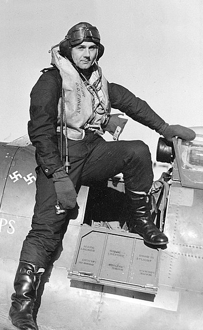 Squadron Leader Donald Finlay of No. 41 Squadron RAF on Spitfire IIA P7666.